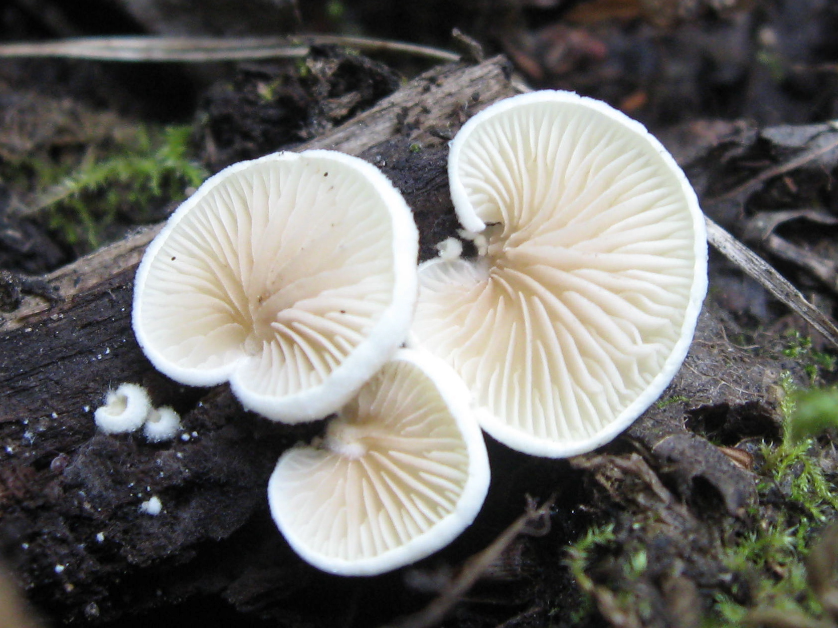 The mushroom Crepidotus versutus, found in La Ronge, Saskatchewan, Canada